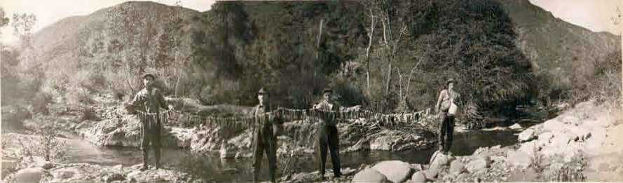 Historical 1916 photo of fishermen with a stringer of Steelhead trout (Oncorhynchus mykiss), on the Upper Sisquoc River. Located in the San Rafael Mountains of northern Santa Barbara County, California.